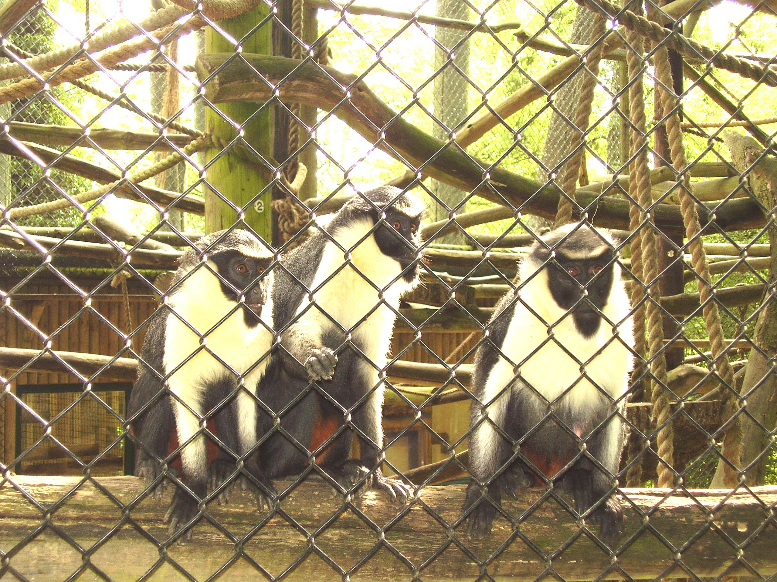 Captive diana monkeys